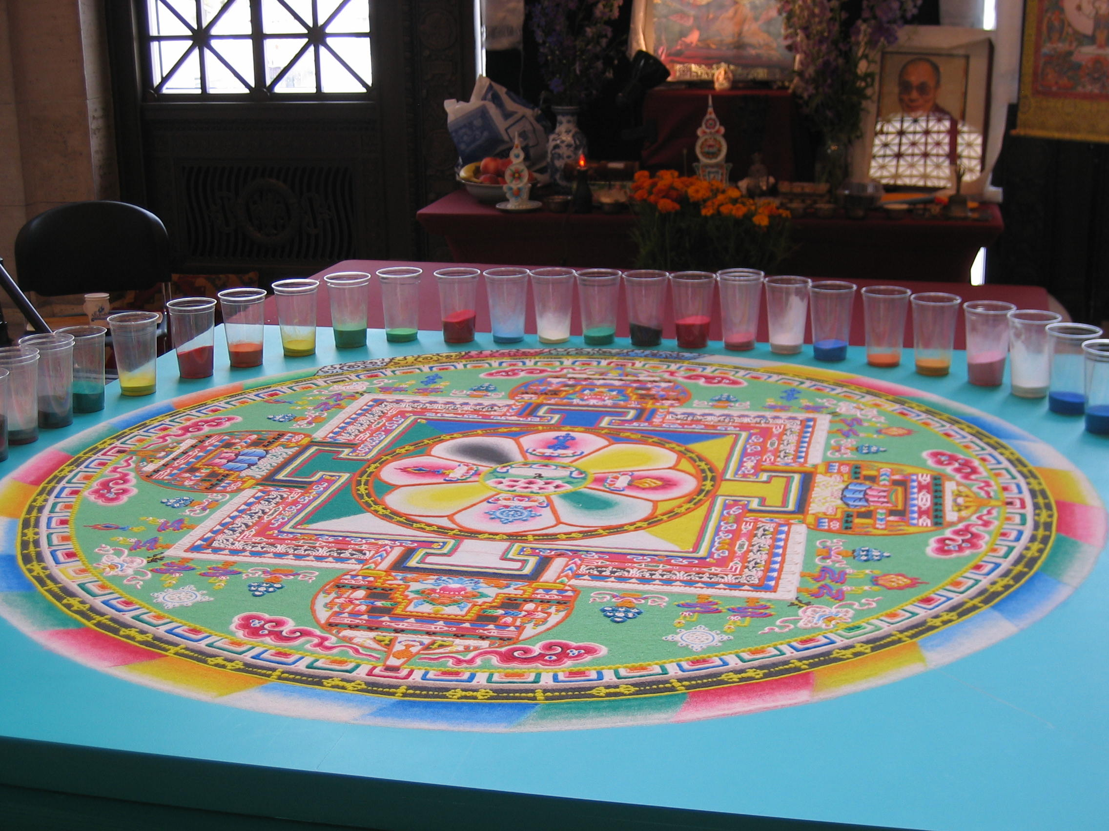 Sand mandala, Tibet exhibit, Asian Art Museum, San Francisco.